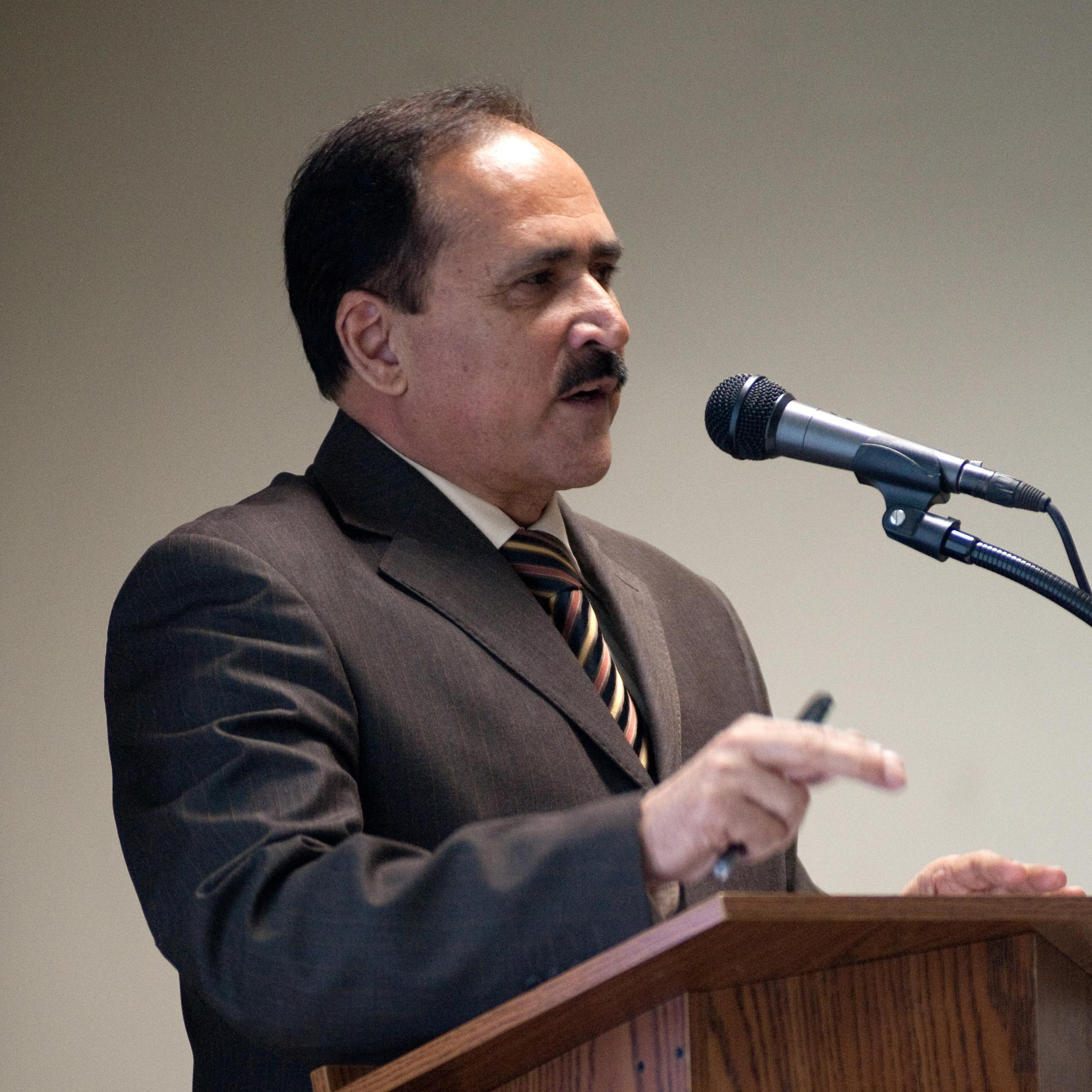 Dr. Sangin, the minister of Communications and Information Technology, addresses attendees of a two-day ISAF communications and technology conference in Kabul, March 30. Sangin joined Gen. David Petraeus, commander of ISAF and U.S. forces in Afghanistan, Lt. Gen. David Rodriguez, ISAF Joint Command commander, and the other distinguished visitors, including representatives from the Ministry of Interior and Ministry of Defense, who discussed past, present and future information and technology sharing ventures to help push Afghanistan's development and security beyond the transition period. The two most common themes among the speakers were the fact that coalition and Afghan forces are working shoulder to shoulder and that all gains should be sustainable after coalition forces leave.